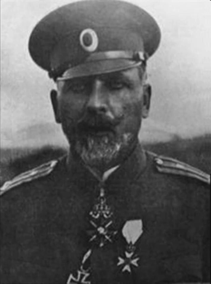 Bulgarian Liutenant-General and war hero